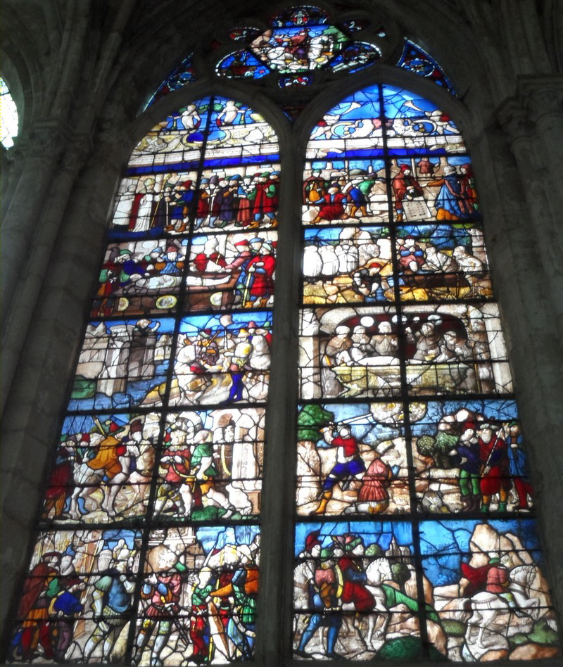 This is the window in 1530 the legend of Saint-Julien church of Saint-Pierre in Saint-Julien-du-Sault (Yonne), France.